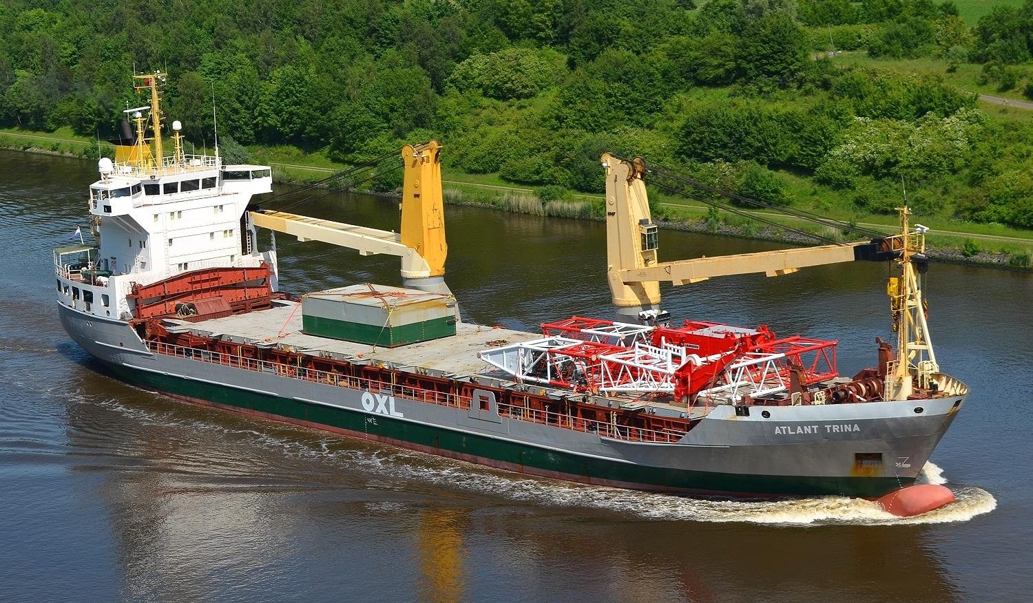 Heavy-lift ship ATLANT TRINA (IMO 9109108) built at J.J. Sietas Schiffswerft, Hamburg-Neuenfelde (Sietas type 132, yard № 1063, launched: 13-12-1994, delivered: 11-02-1995) as TRINA for Hans & Claus Heinrich, Hamburg (Schiffahrtskontor Altes Land), later names: 2006 ATLANT TRINA, 2014 BSLE NINA, 29-07-2017 arrived Alang for BU, 07-08-2017 beached Alang for BU; photo by Jens Dohrn, Kiel Canal, 18 June 2013.